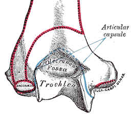 Detail of File:Gray208.png showing the trochlea.